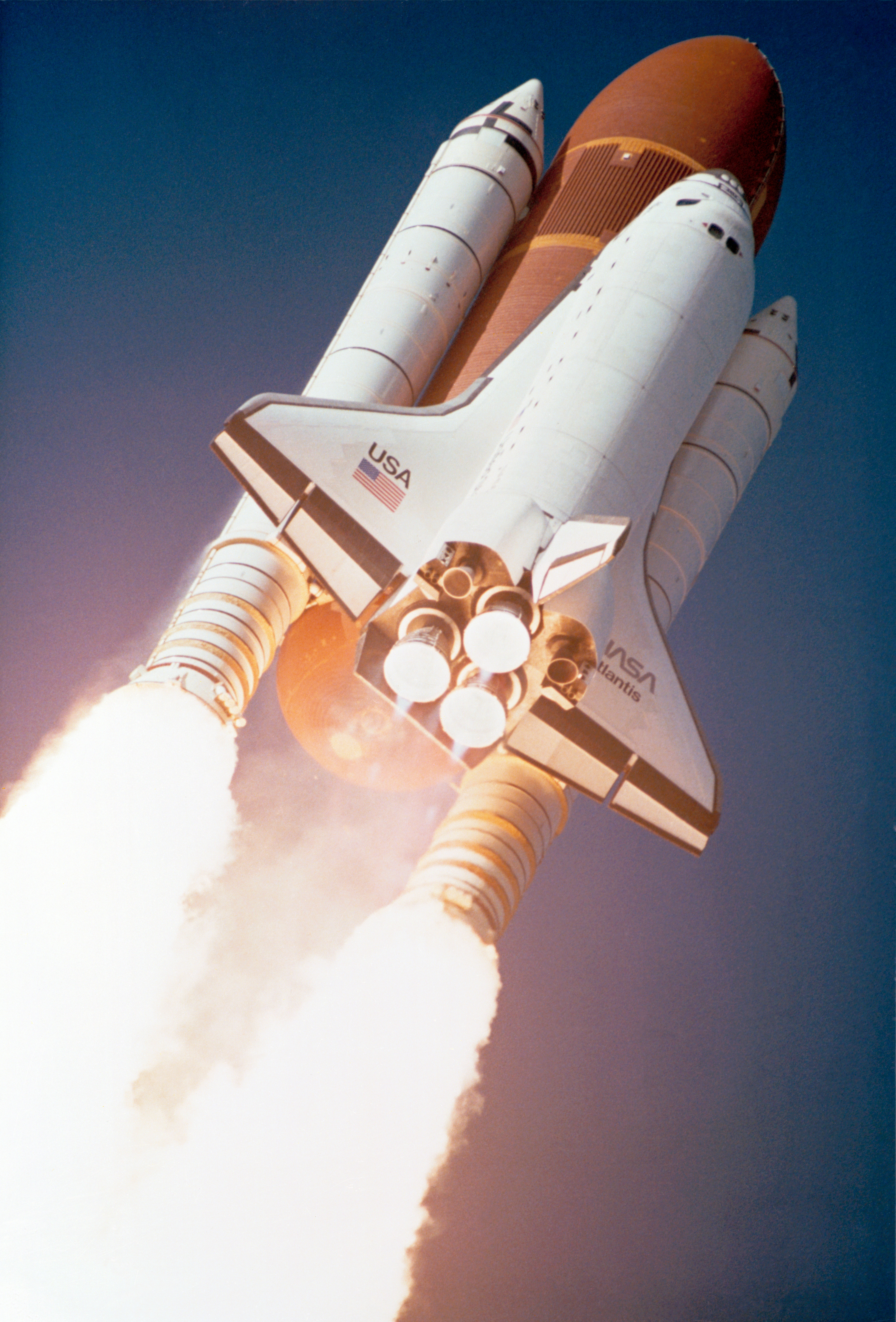 The space shuttle Atlantis and its five-man crew of astronauts are launched from Kennedy Space Center’s Pad 39B at 9:30 a.m. (EST), Dec. 2, 1988. Onboard the Department of Defense – dedicated mission are astronauts Robert L. Gibson, Guy S. Gardner, Jerry L. Ross, Richard M. (Mike) Mullane and Williams M. Shepherd.